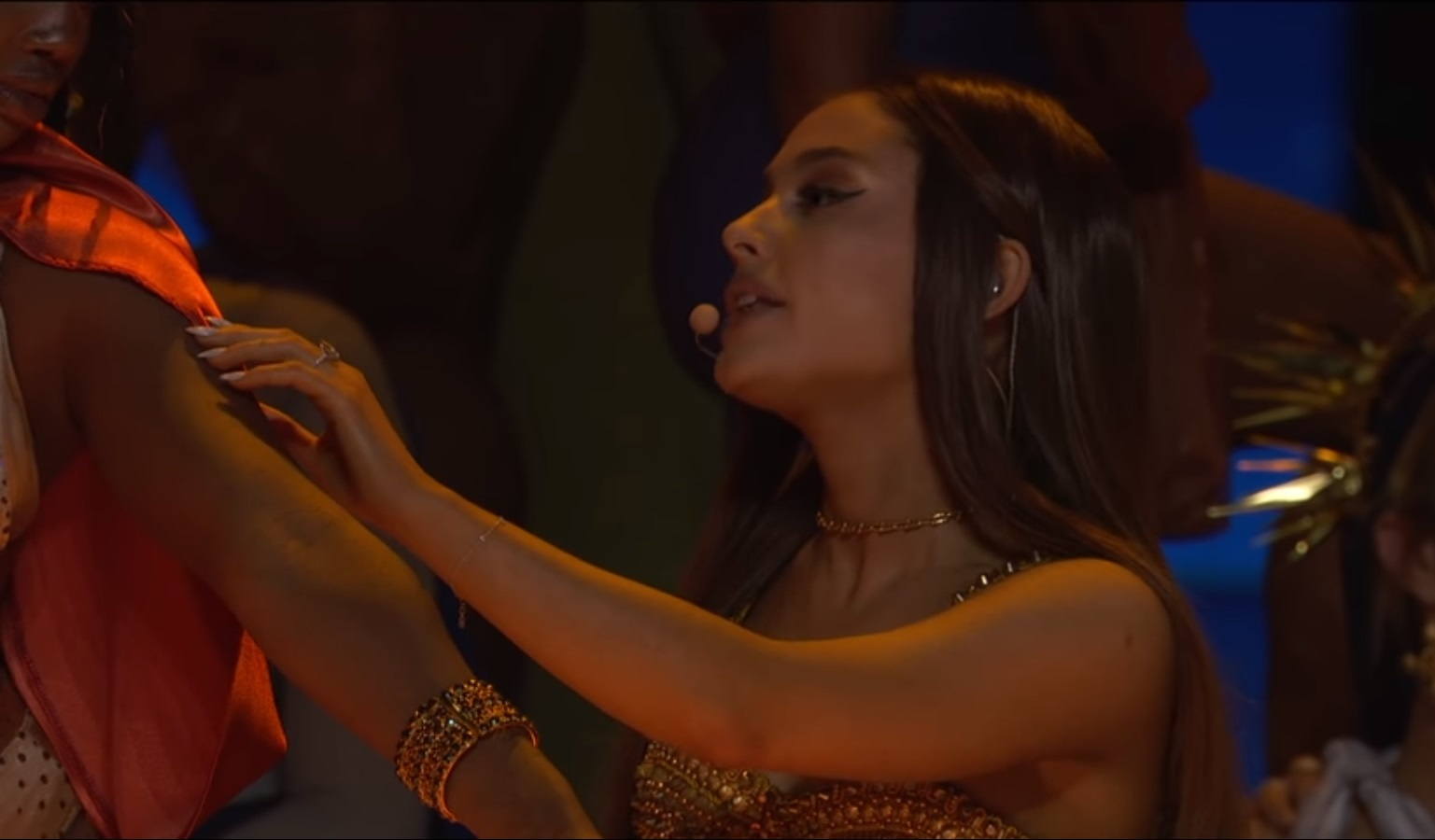 Ariana Grande performs "God Is A Woman" at the 2018 Video Music Awards in New York City.